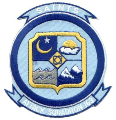 U.S. Navy Attack Squadron 163 Insignia